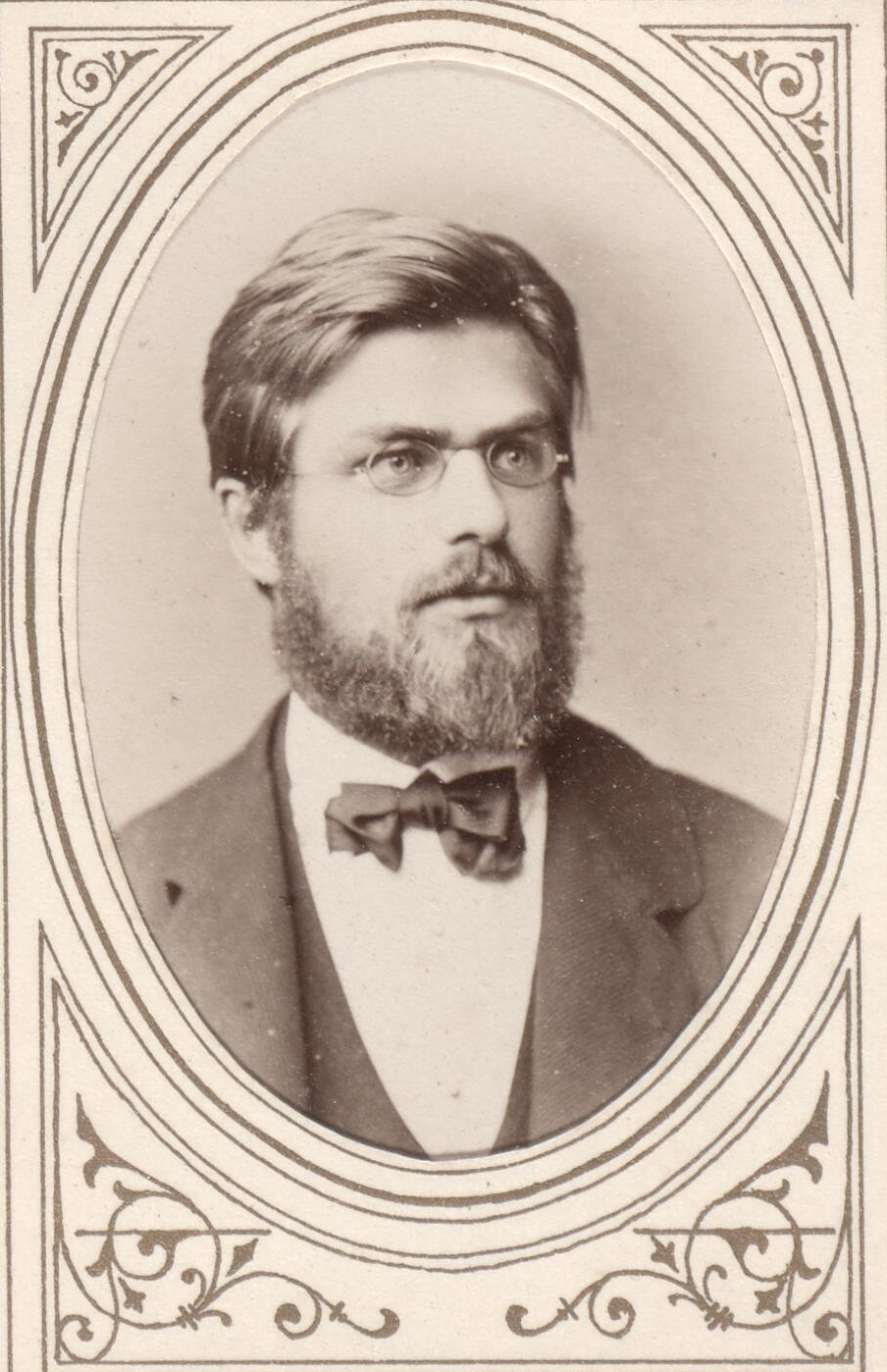 Plate 17 Photograph album of German and Austrian scientists. Dr. Weisbach, Constantinopel (Constantinople), Dr. Augustin Weisbach (1837-1914),; Professor Rindfleisch, Würzburg; W. Rosenblath, Cassel; R. von Barnekow, Hannover; C. Siebert, Cassel; Dr. Carl Friedr. Dittrich, Brünn (Brno); Eduard Heinrich Mayer, Cöln; Dr. Carl Rabl, Wels/Oberösterreich (Upper Austria).